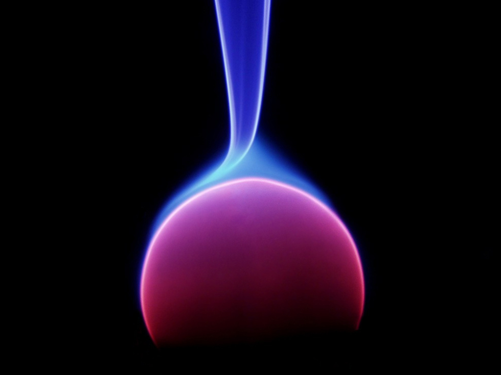 Energy Arc, central electrode of a Plasma Lamp.